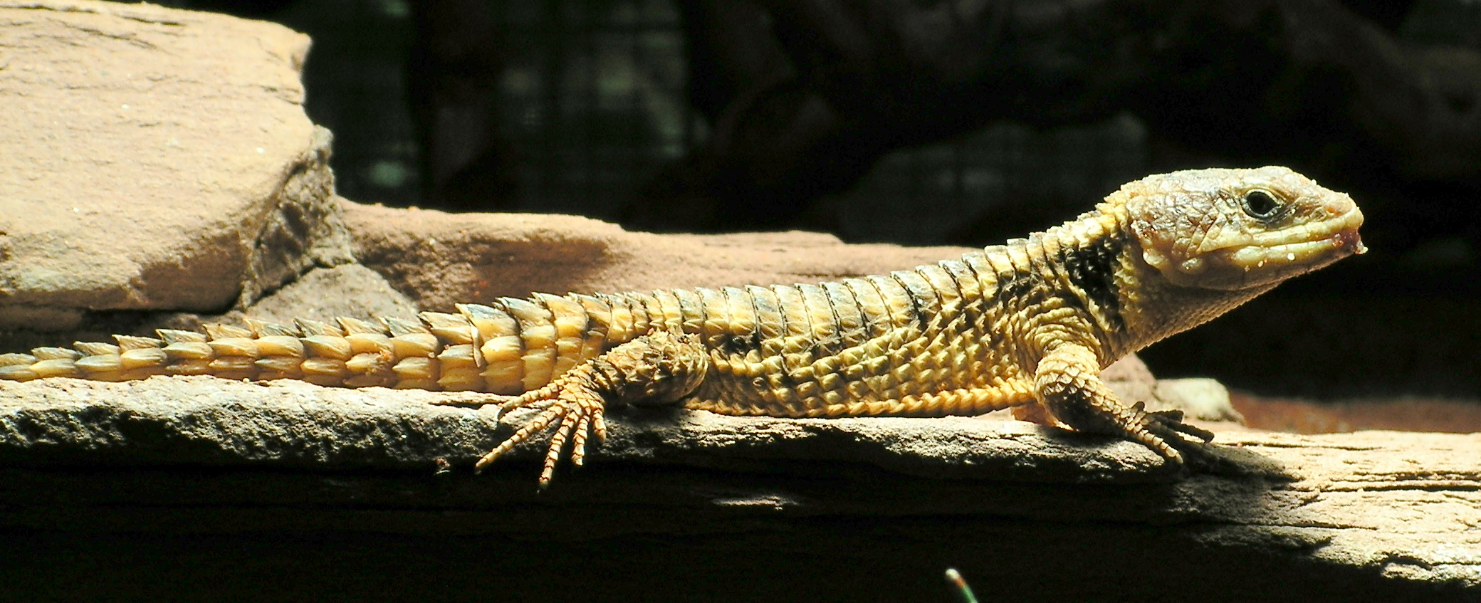 Cordylus tropidosternum, East African Spiny-tailed Lizard, photographed in Berlin Zoo